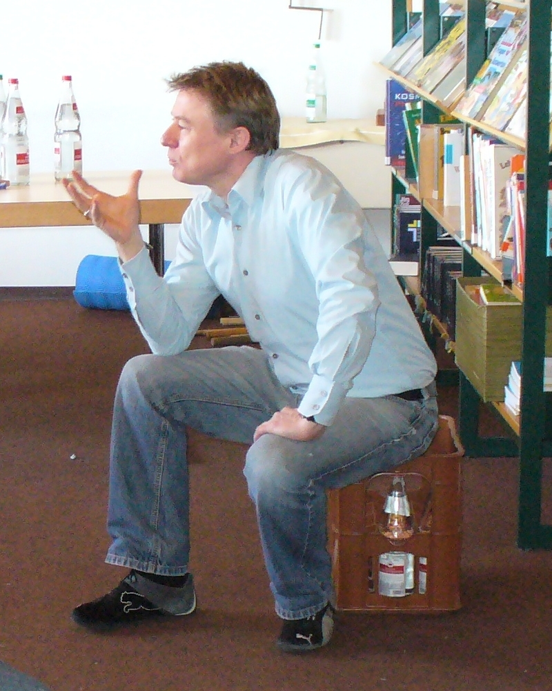 German theatre director Tristan Berger